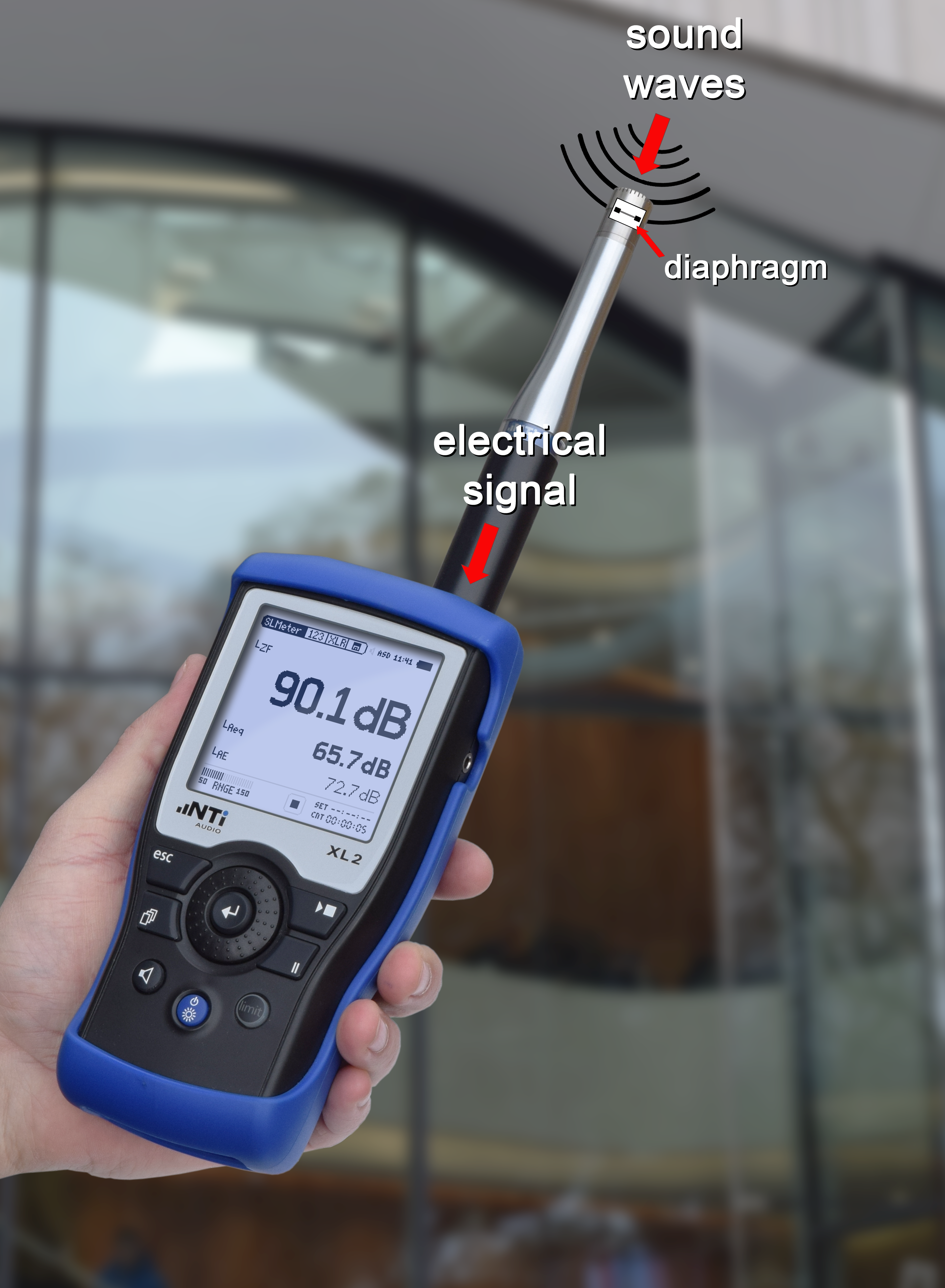 Illustrates how sound pressure waves are converted to an electrical signal and displayed as a sound pressure level on a sound level meter